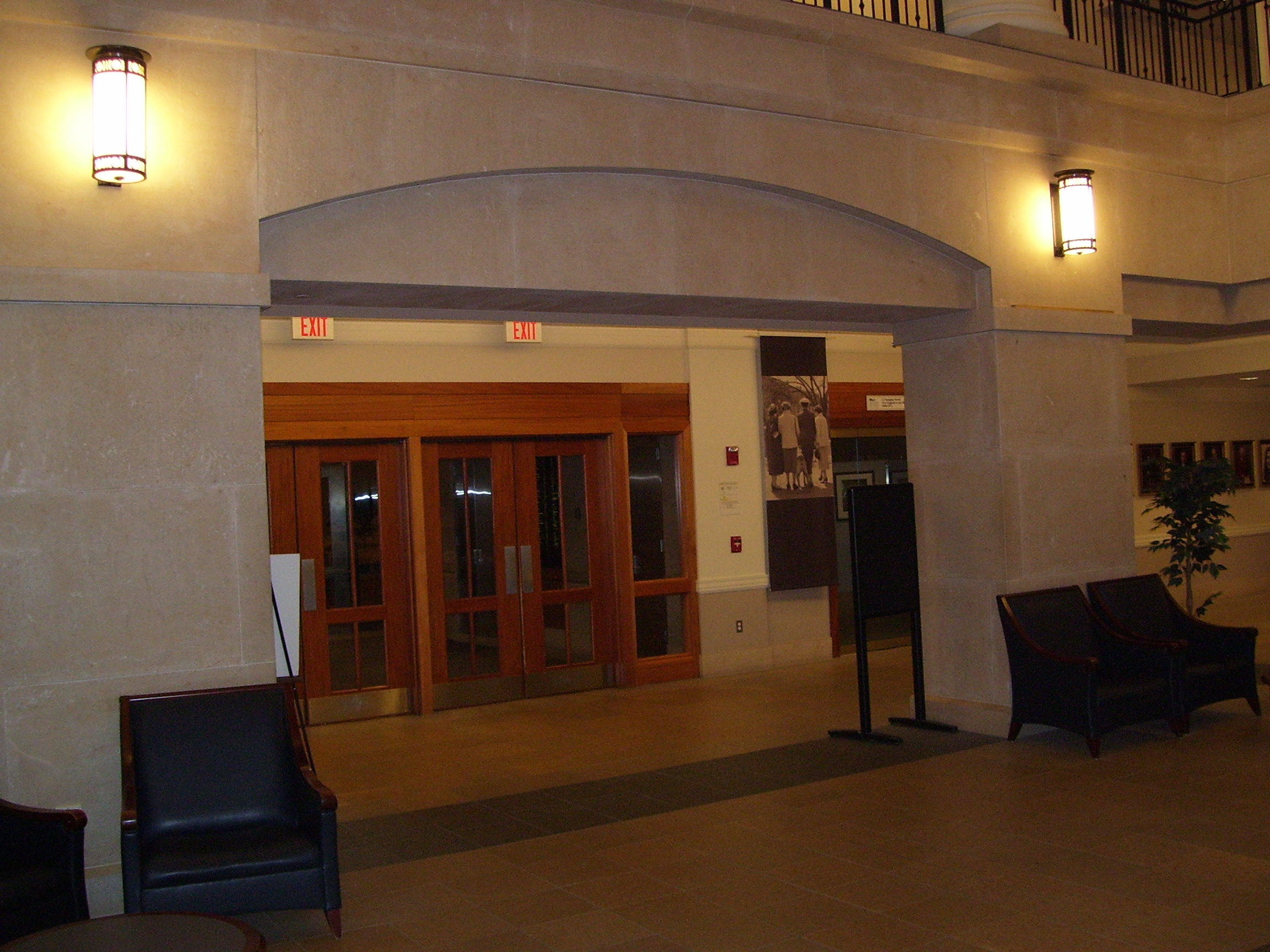 My photo of Suffolk Law School in 2008.